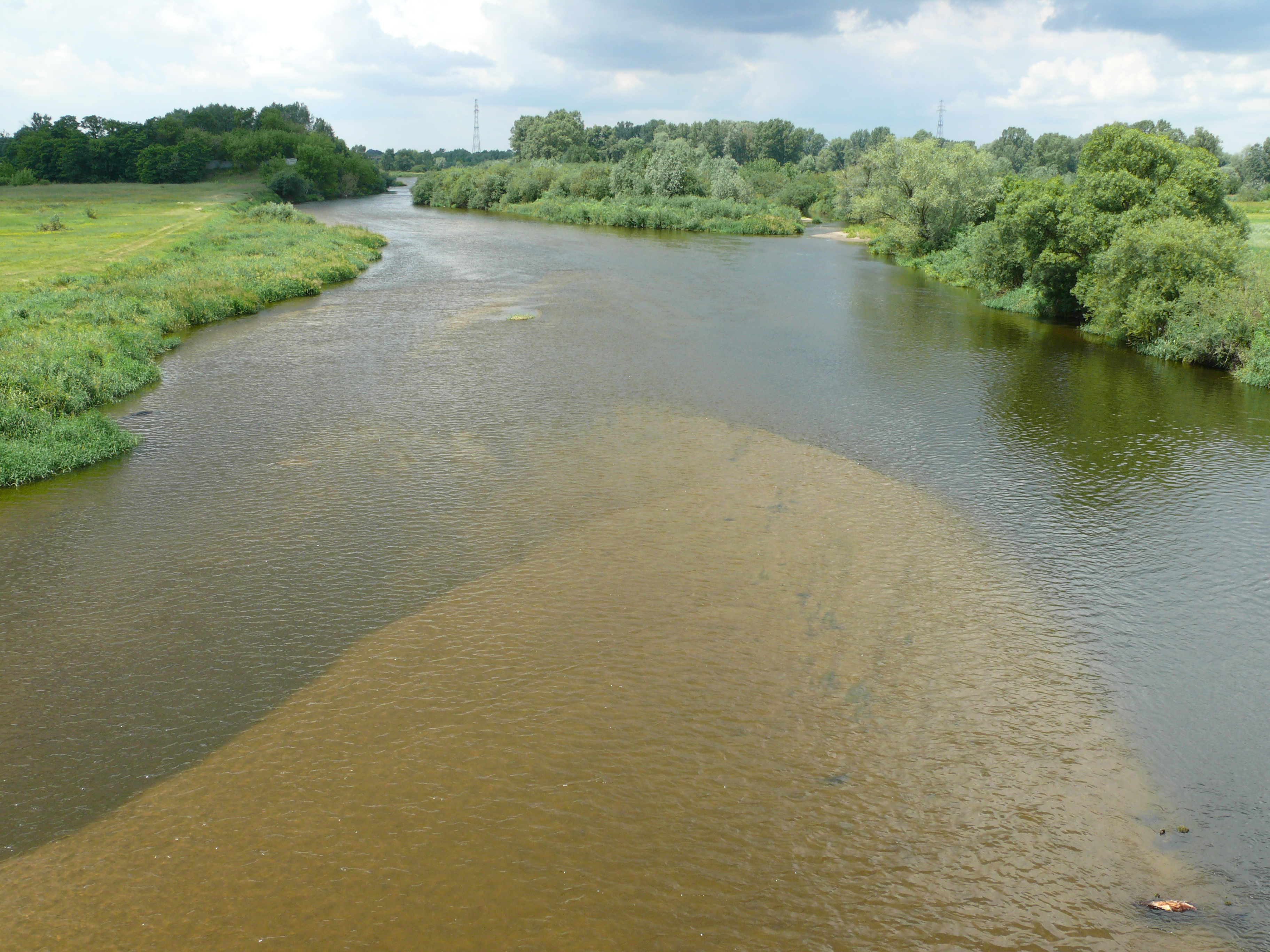 Bzura river